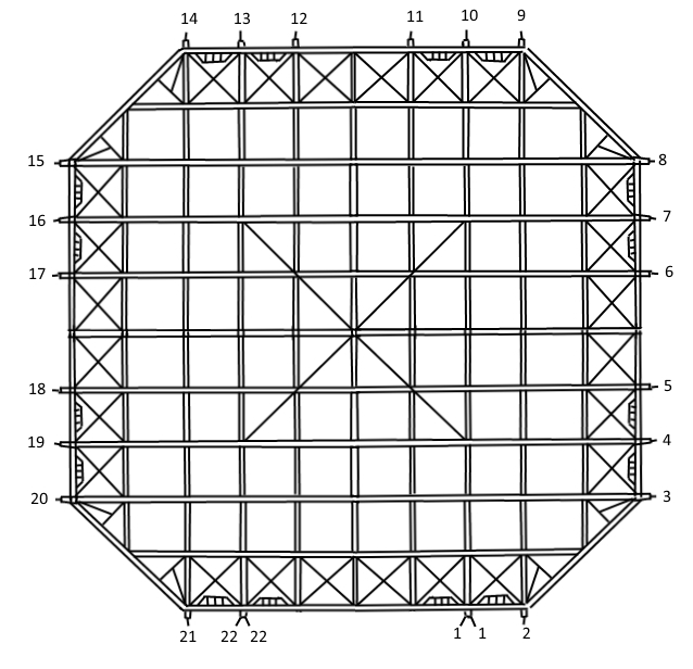 This graphic shows the canopy of the russian parachute PD-47.